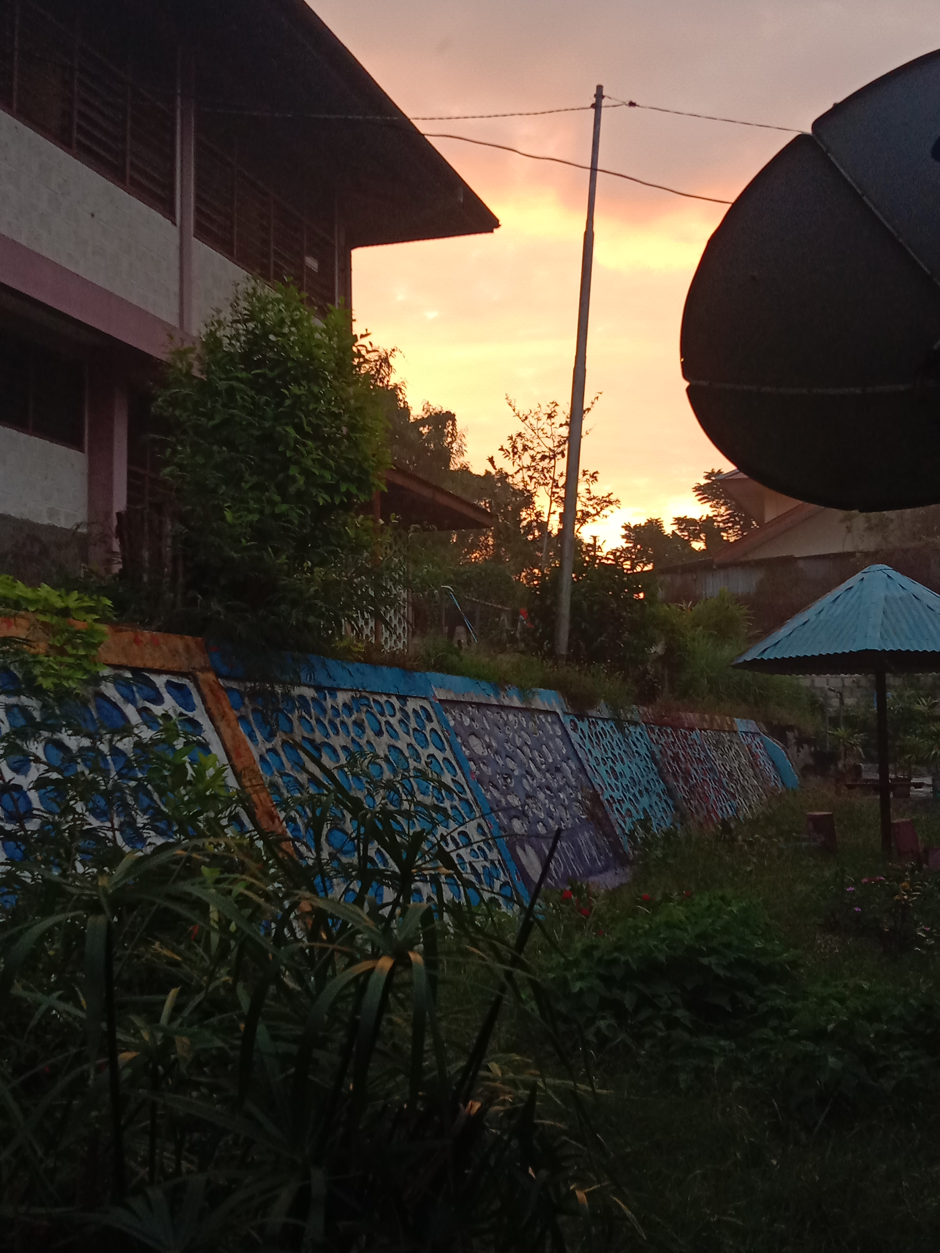 Ketika keindahan sunset menunjukan keindahannya di tengah sunyinya kota